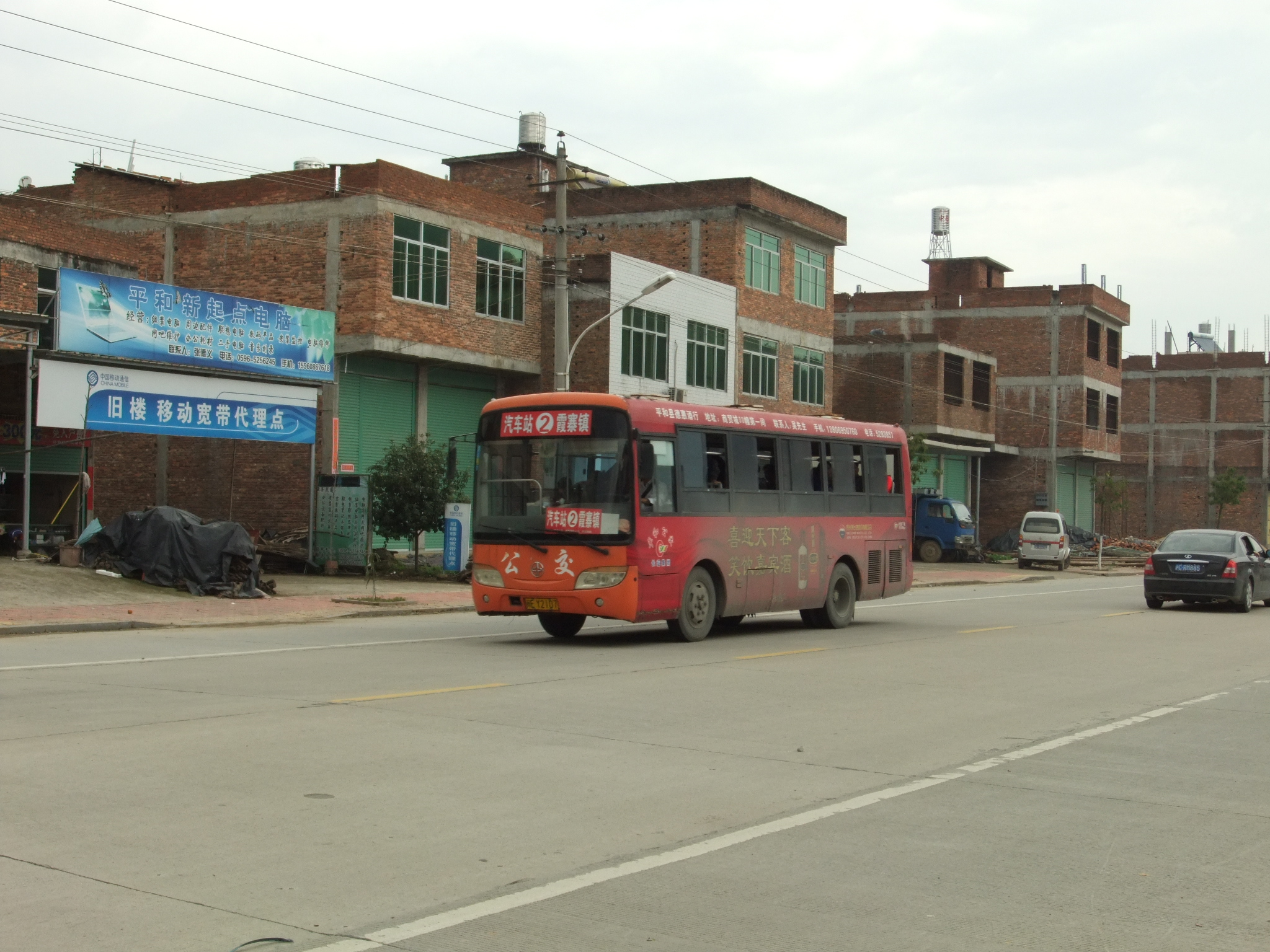 Bus no. 2, running between Xiaoxi Town (Pinghe County seat) and Xiazhai town, seen on S207 the north-western outskirts of Xiaoxi Town (Gulou or Jiulou Village).